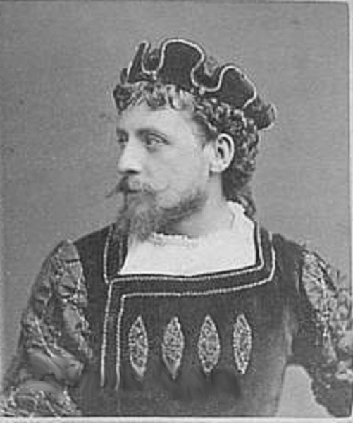 Joseph Victor Amédée Capoul, born in Toulouse on 27 February 1839 and died in Pujaudran on 18 February 1924, was a French operatic tenor with a lyric voice and a graceful singing style.